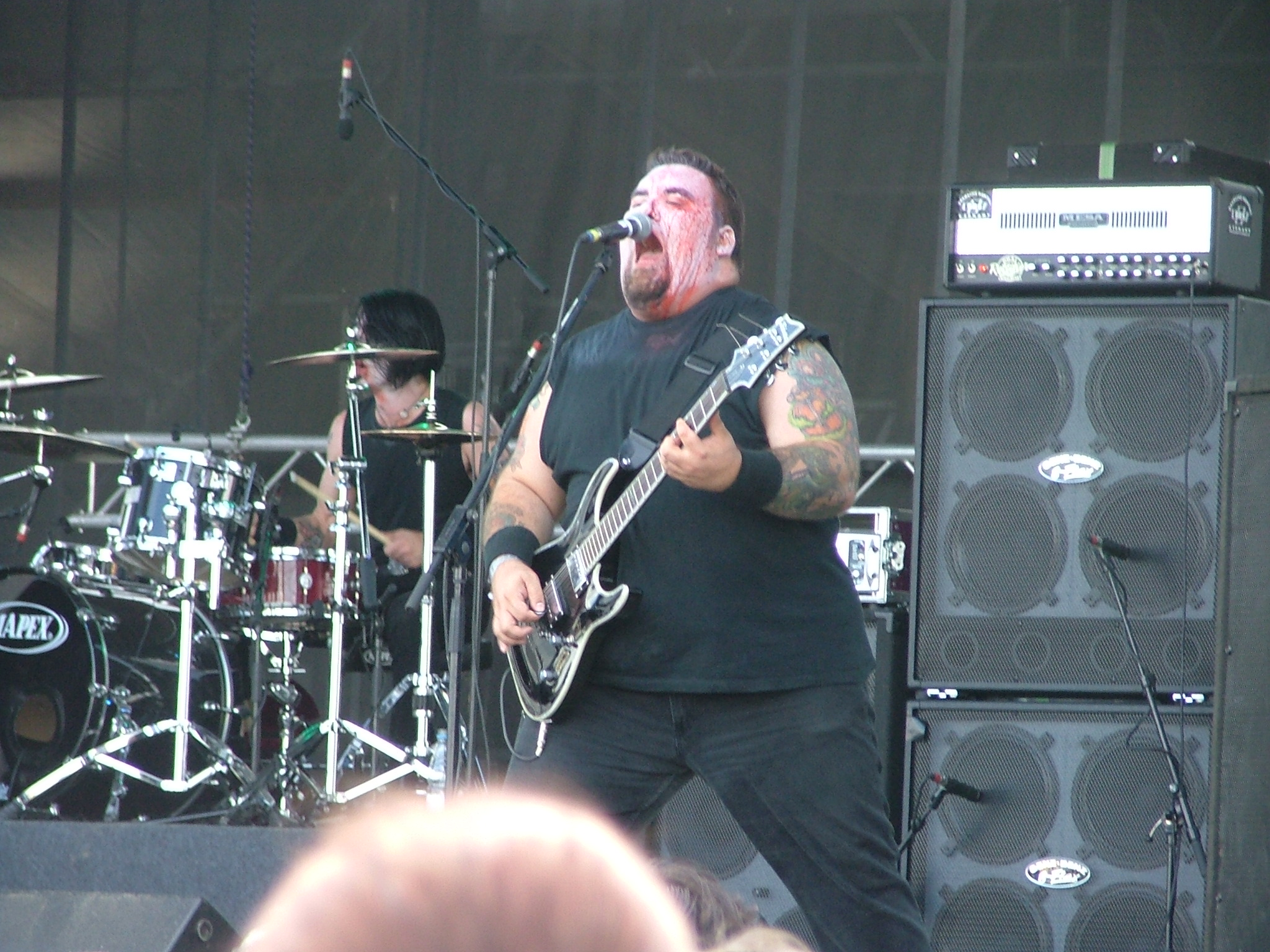 American horror punk band Blitzkid at the Summer Breeze in Dinkelsbühl